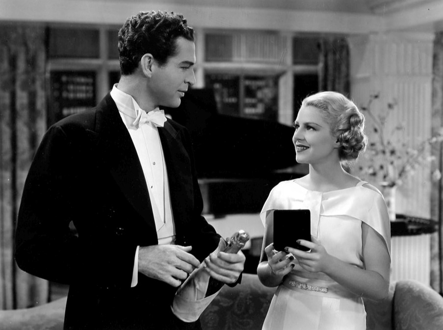 Still with Michael Whalen and Claire Trevor from the American drama film Song and Dance Man (1936).